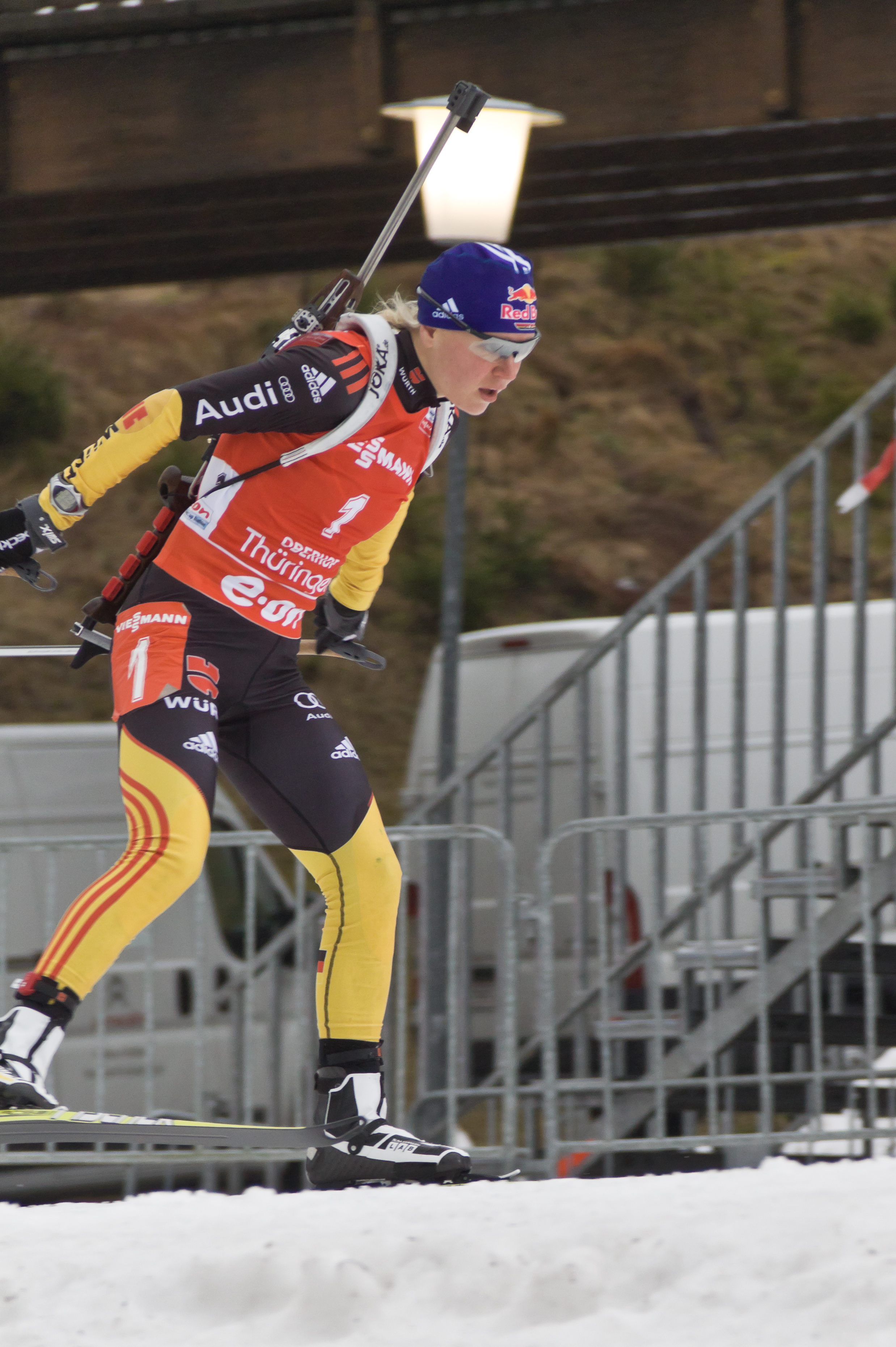 German biathlete Miriam Gössner in world cup pursuit race in Oberhof.